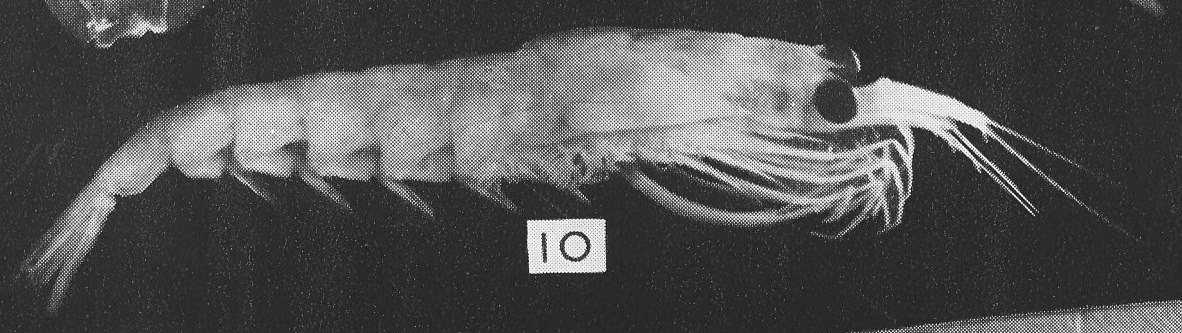 The luminescent Nyctiphanes australis.